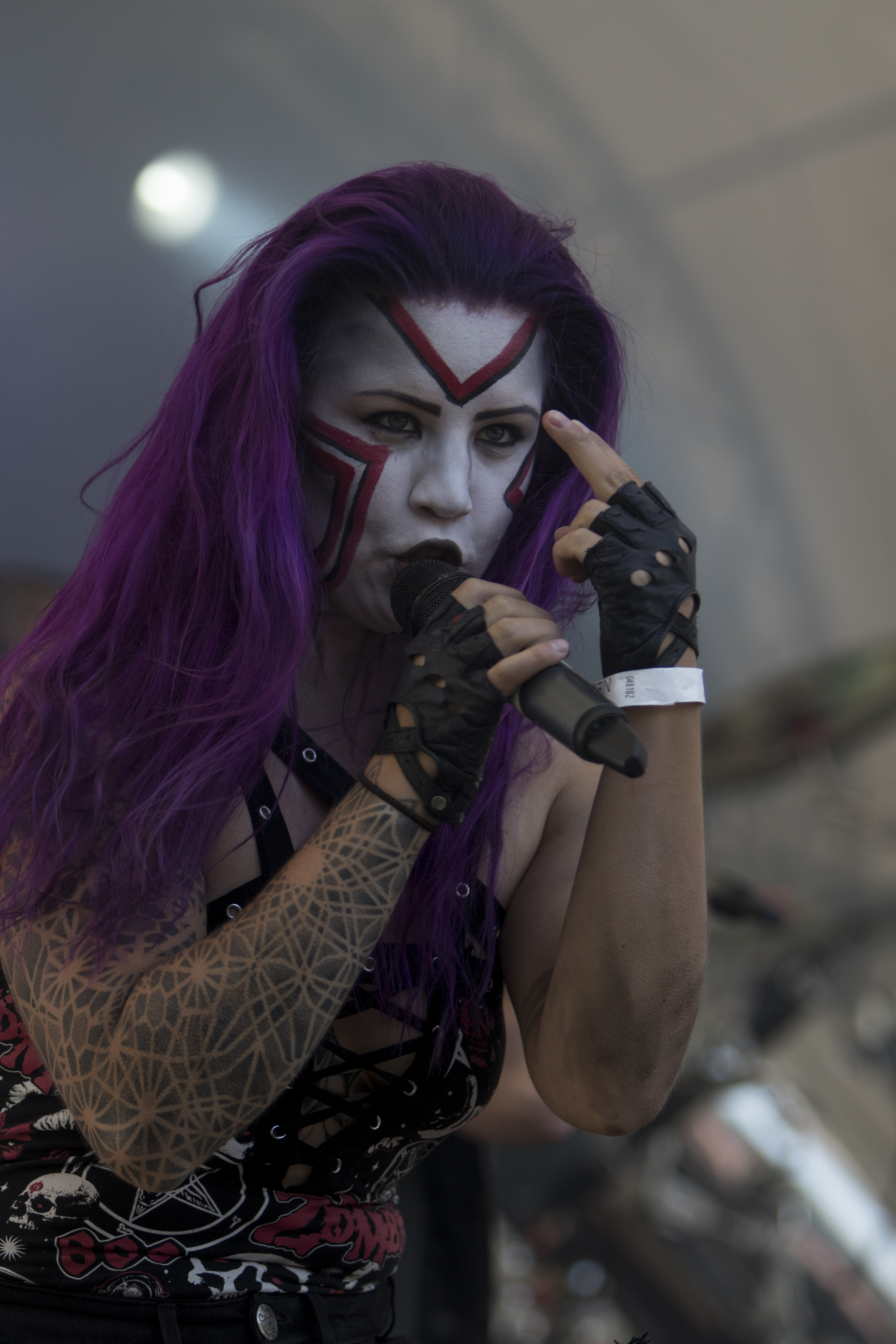 Fear of Domination at the Saarihelvetti festival in 2019 (Tampere, Finland)